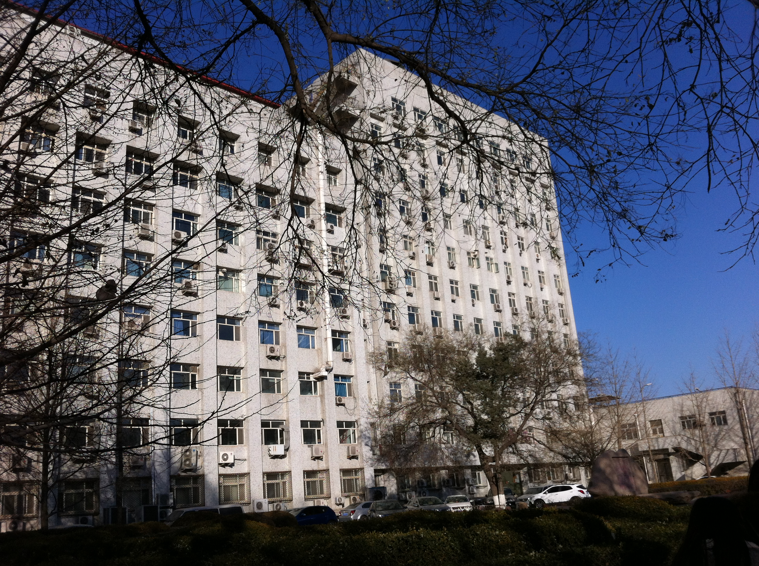 The laboratory building of Capital Normal University, west of Huayuanqiao Station.